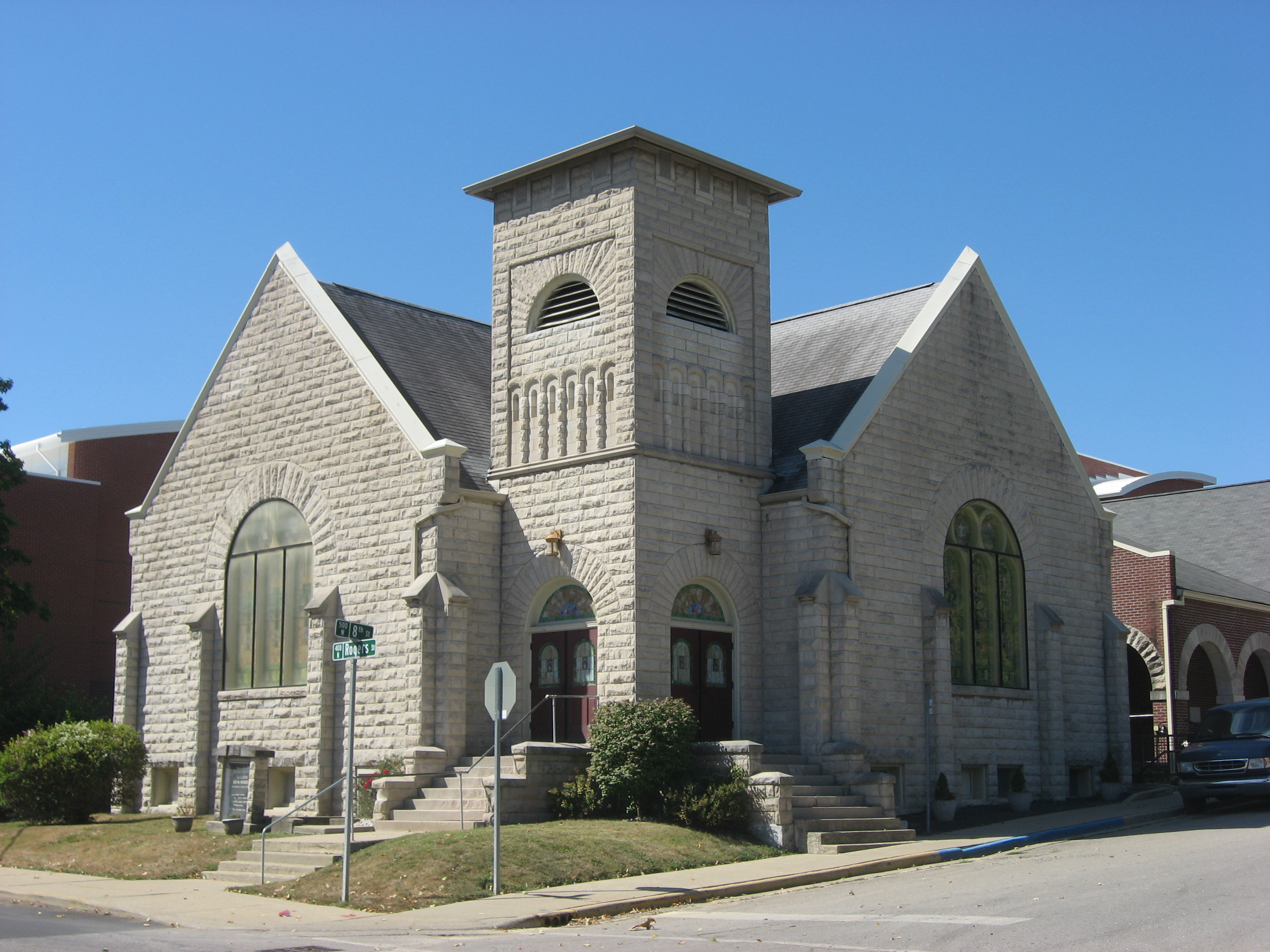 Front and northern side of the Second Baptist Church, located at 321 N. Rogers Street in Bloomington, Indiana, United States. Built in 1913, it is listed on the National Register of Historic Places, and it is part of a Register-listed historic district, the Bloomington West Side Historic District.